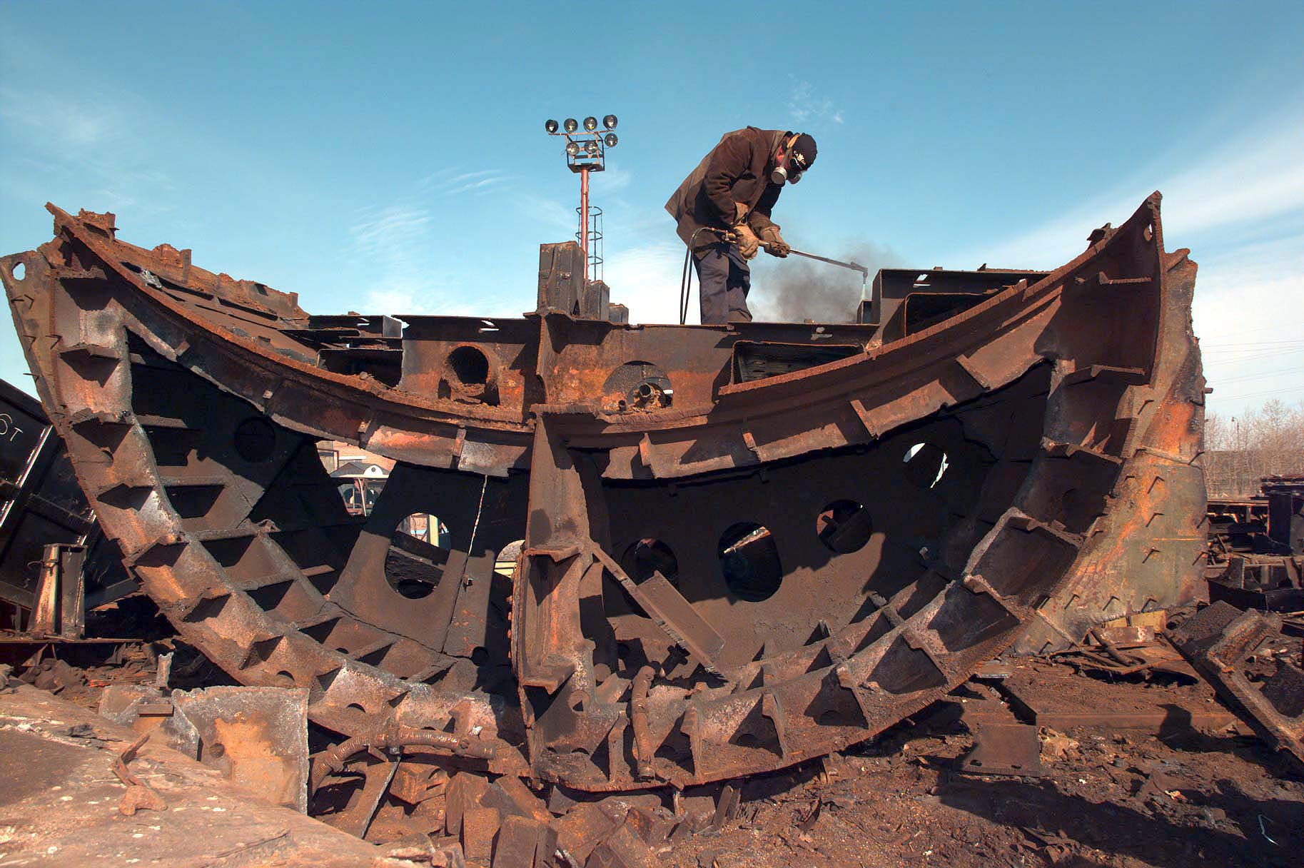 A shipyard worker uses a cutting torch to breakdown a large bulge section of a Russian Oscar Class submarine at the "Zvezdochka" shipyard in Severodvinsk, Russia. This Russian cruise missile submarine is being dismantled as part of the Nunn-Lugar/Cooperative Threat Reduction Program